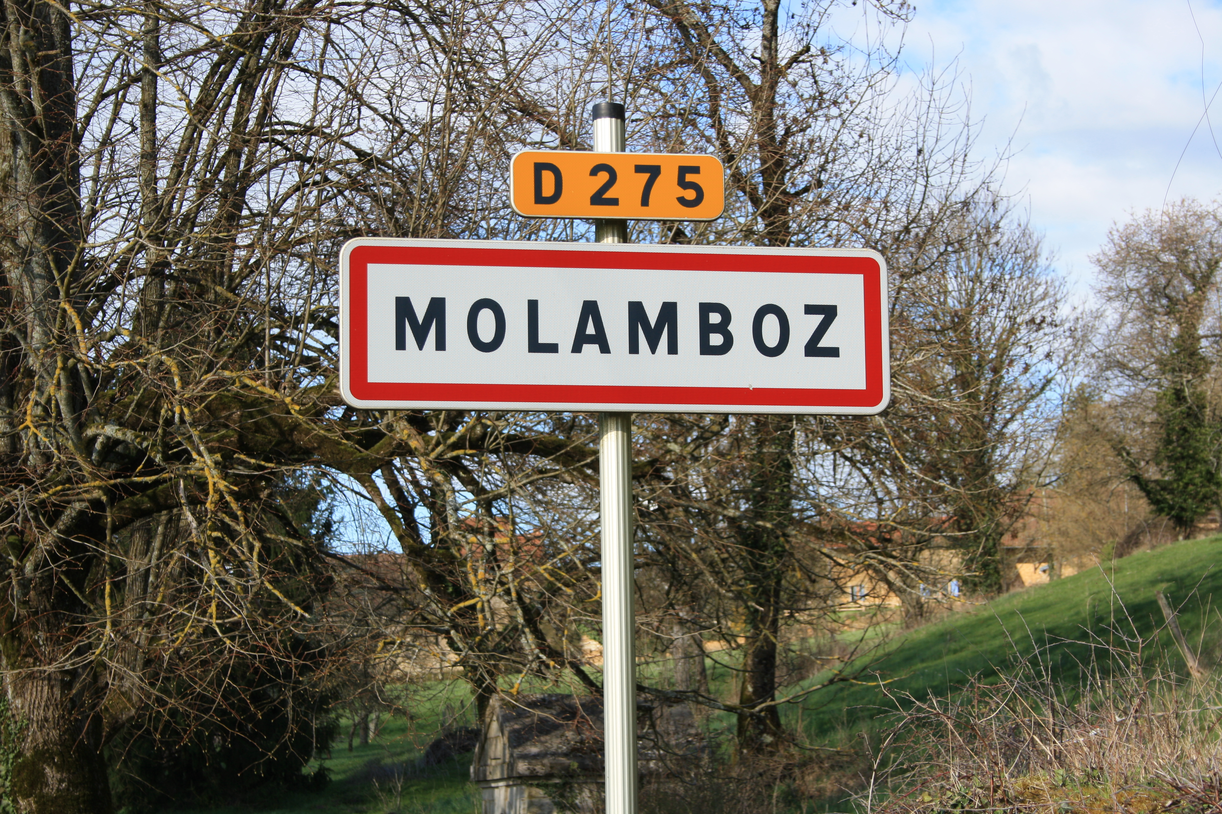 The village of Molamboz, Jura, France.